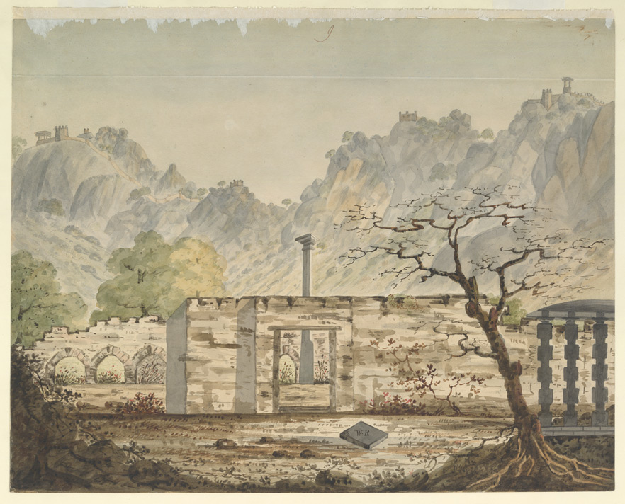 Kondavid-drug near Guntur